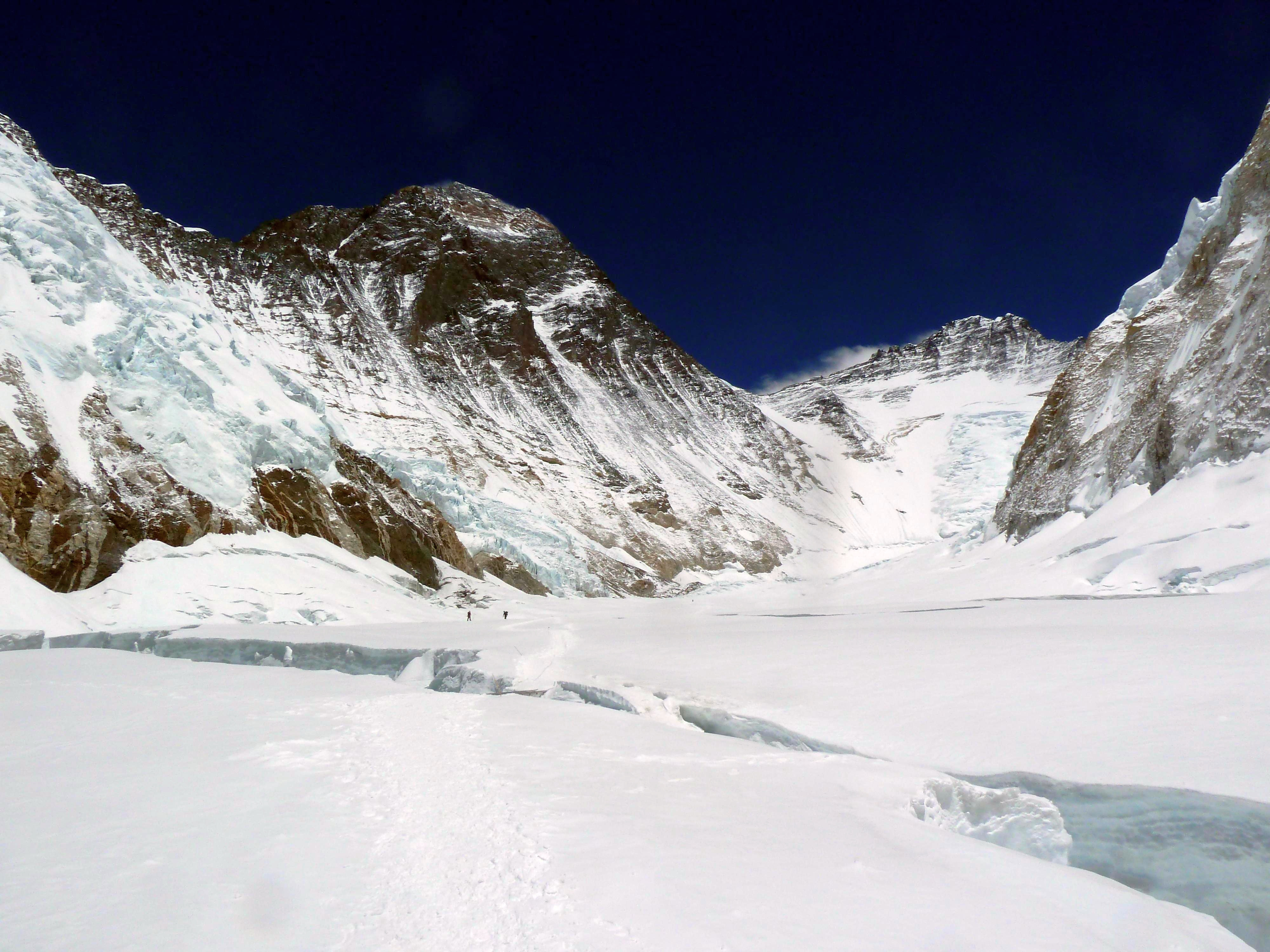 The Western Cwm below Mount Everest (left) and Lhotse (right)